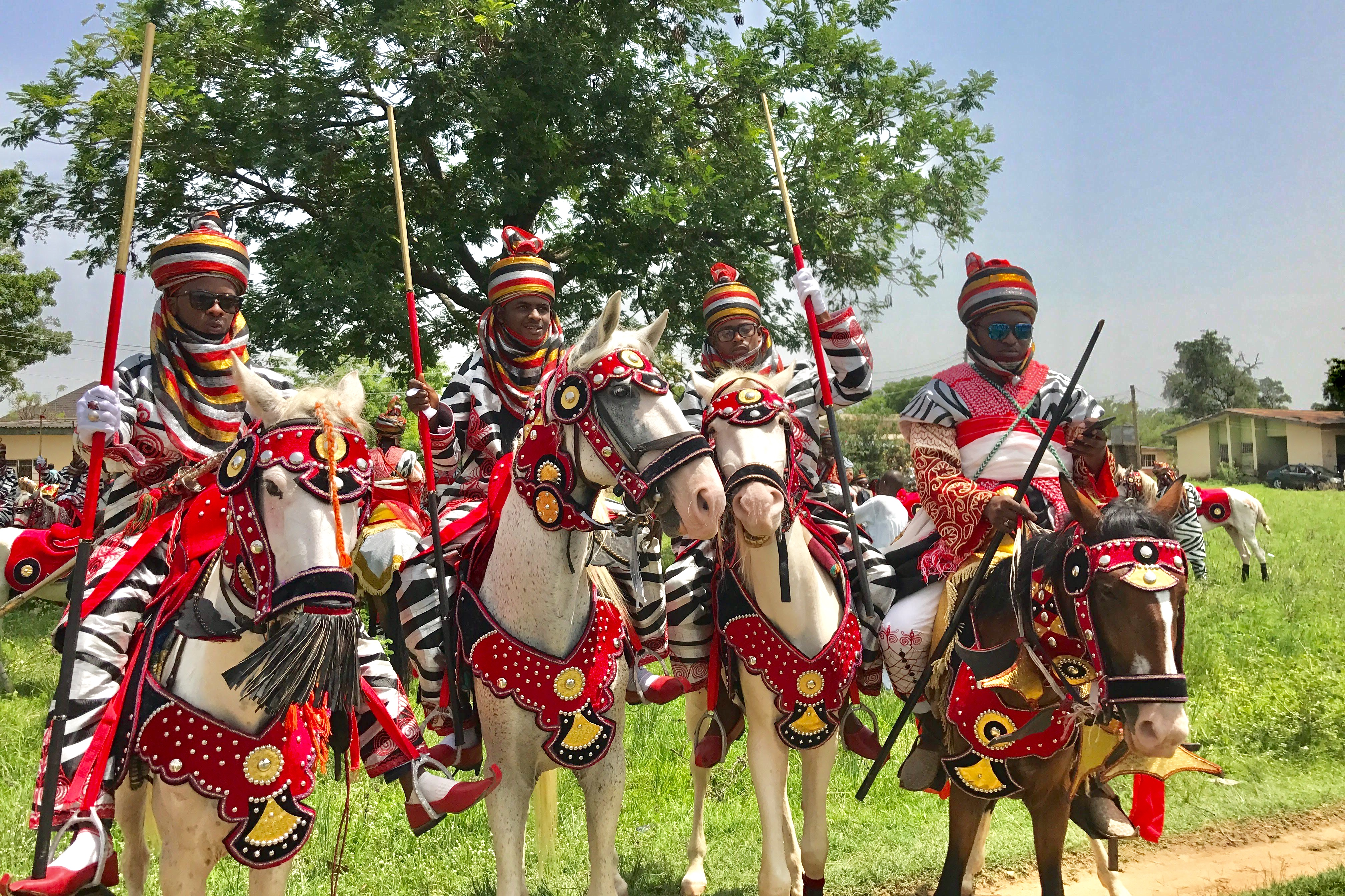 This happens annually and it’s called “Hawan Daushe” where every contingent of horse riders (warriors) compete. This is an image with the theme "Play" from: Nigeria